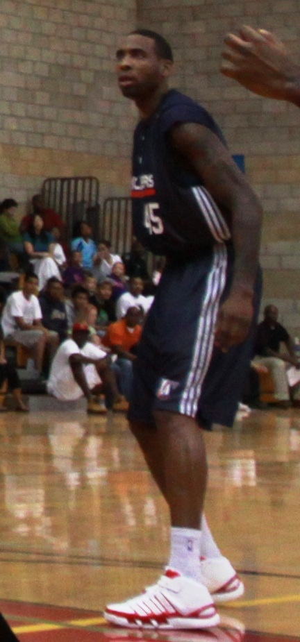 Rasual Butler of the Los Angeles Clippers during a scrimmage game at the Paige Field House